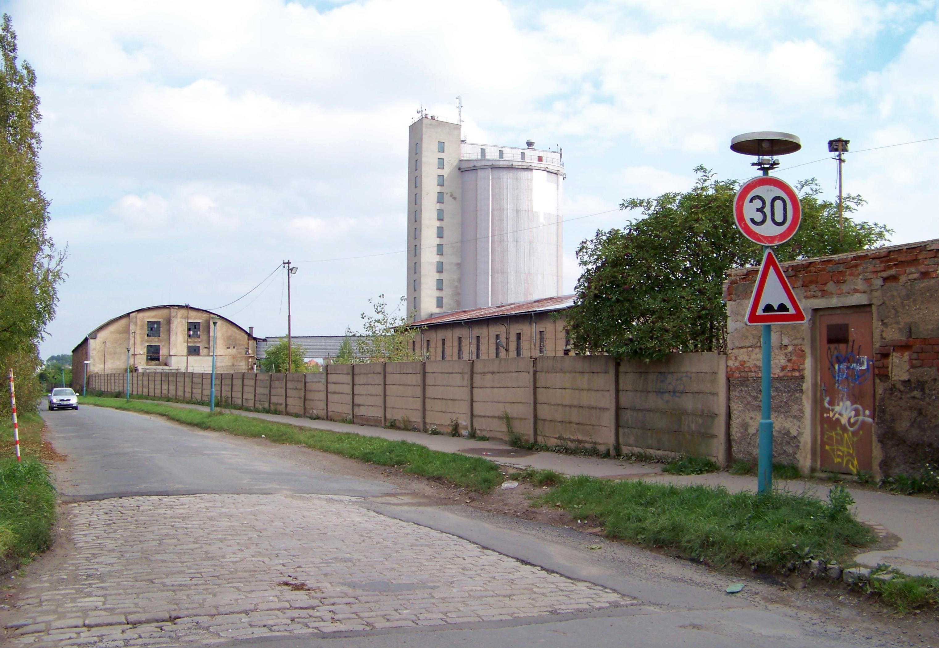 Český Brod, Kolín District, Central Bohemian Region, the Czech Republic. Krále Jiřího street, silos and depots near the train station.